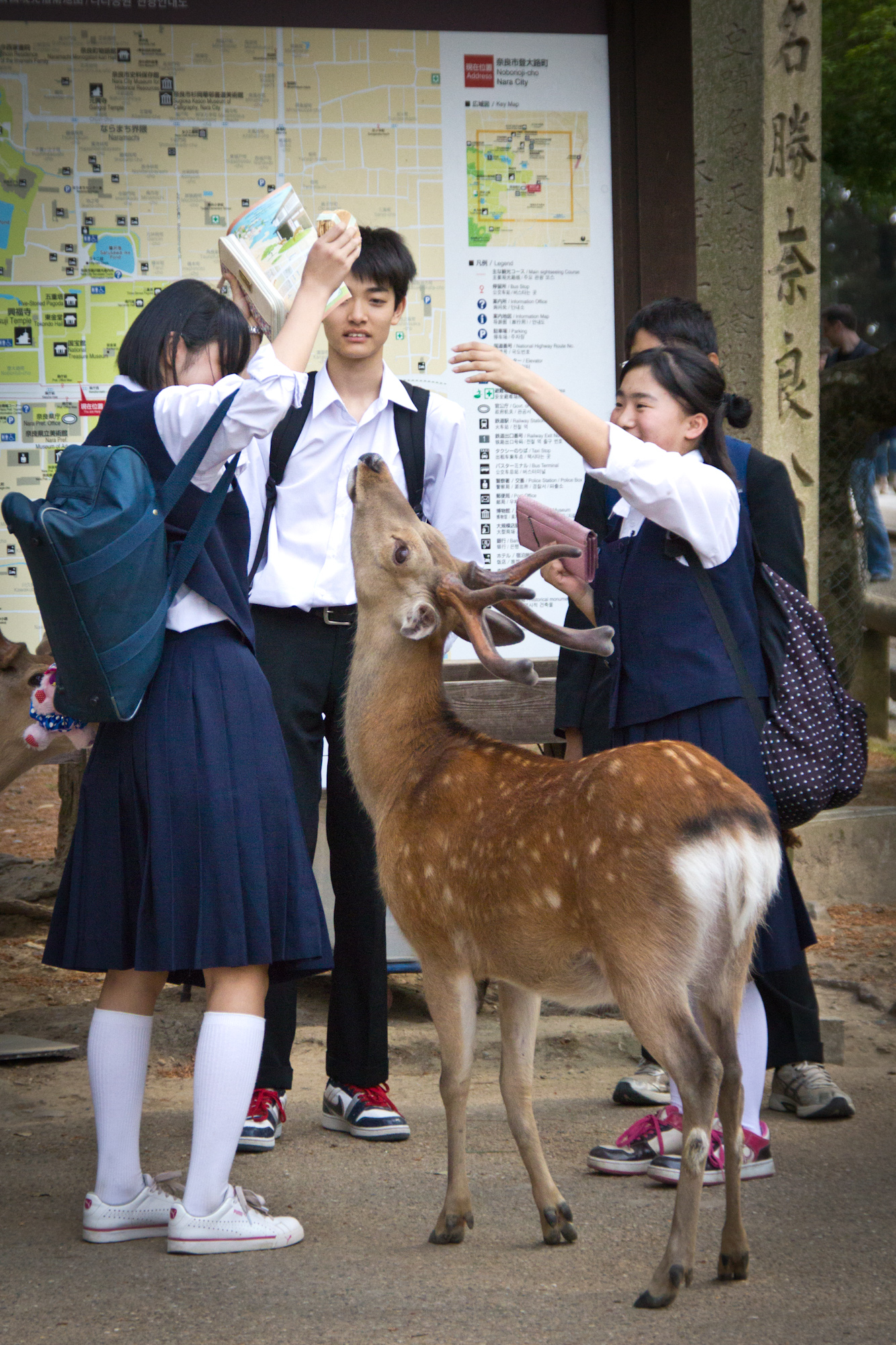 A visit to the Nara, the ancient capital of Japan